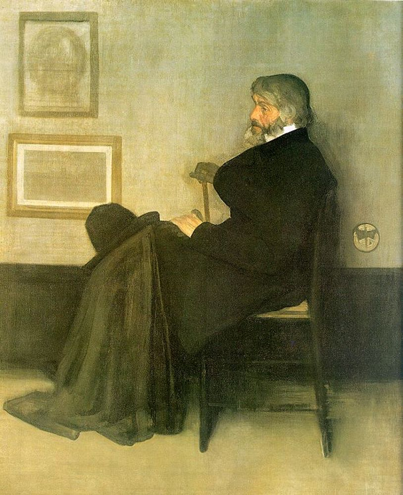 Portrait of Thomas Carlyle